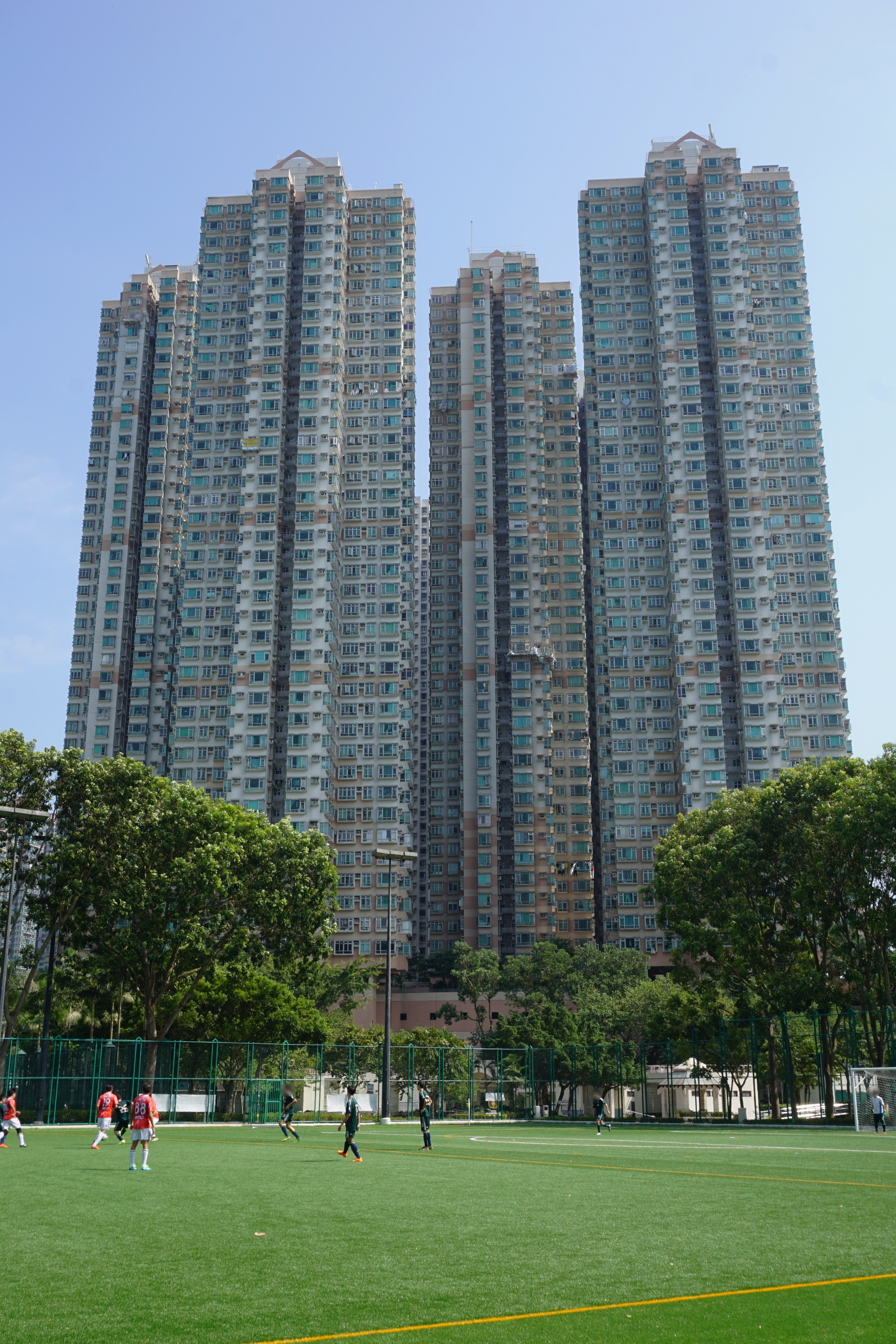 Well On Garden in Po Lam, Hong Kong.